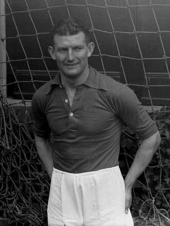 Portret van voetballer Kick Smit, 17 november 1946 Foto Ben van Meerendonk / AHF, collectie IISG, Amsterdam